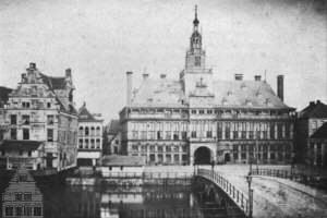 town hall Emden around 1880